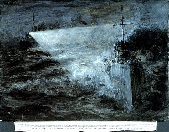 A clever feat: the destroyer HMS Derwent torpedoing the Apollo class cruiser HMS Aeolus during the manoevres 27 August 1904 or Destroyer Derwent at torpedo practice by W L Wyllie